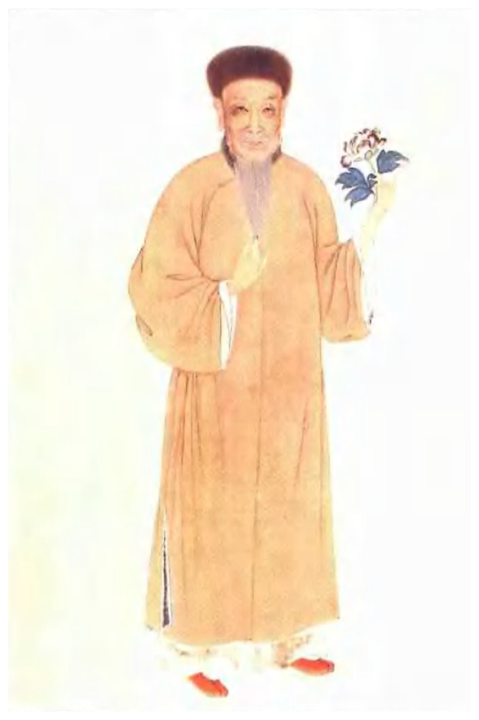 Yuan Mei (袁枚 pinyin: Yuán Méi, 1716 – 1797) was a well-known poet, scholar and artist of the Qing Dynasty.